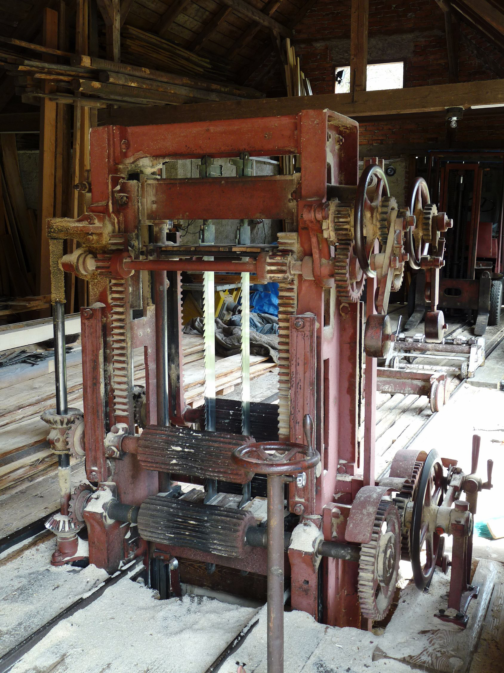 Water sawmill in Velhartice, Klatovy District, Czech Republic